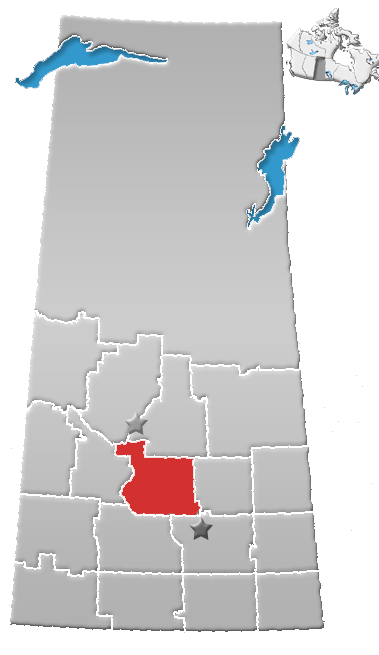 Saskatchewan census area No. 11